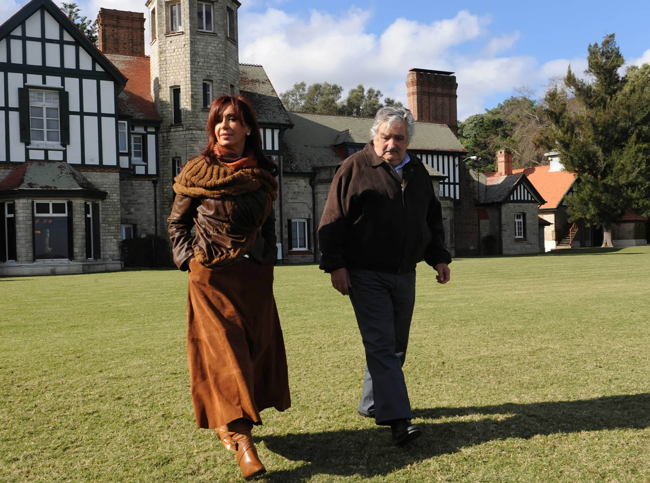 Presidents Cristina Fernandez from Argentina and Jose Mujica from Uruguay.